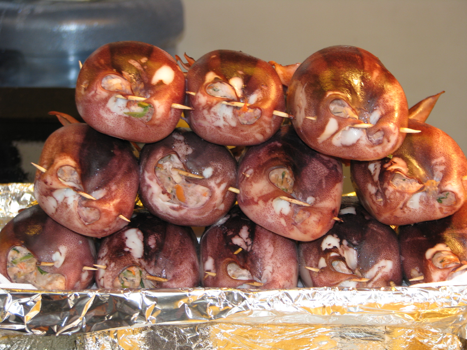 They were stuffed with seasoned fried rice and noodle, then sliced into little rings. These stuffed squid became my new favorite seafood dish!